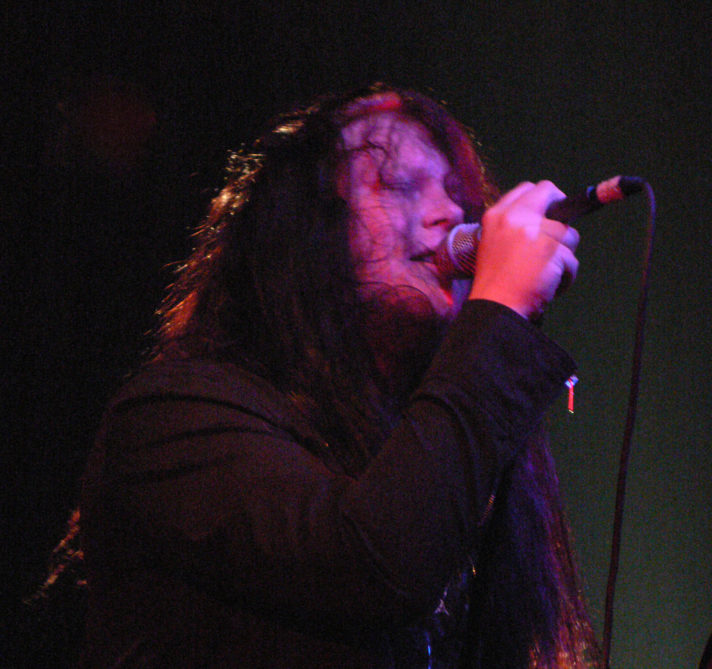 Jonas Renkse singing for the band Katatonia on 4 September 2007 at Jaxx Nightclub in West Springfield, Virginia. I shot this image on my Panasonic Lumix DMC-LX1 digital camera.